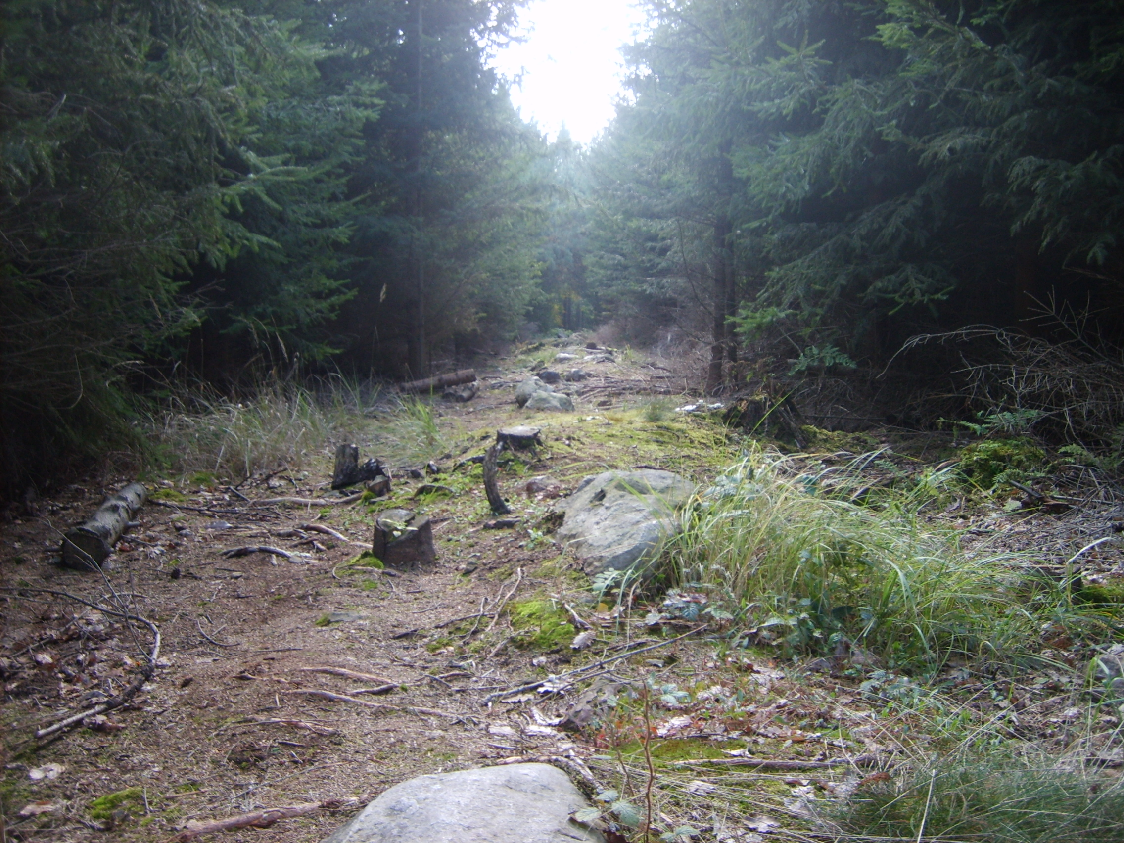 Pre-historical Kounov stone-rows, Czech republic Česky: Kounovské kamenné řady